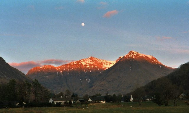 Houses in Glencoe village